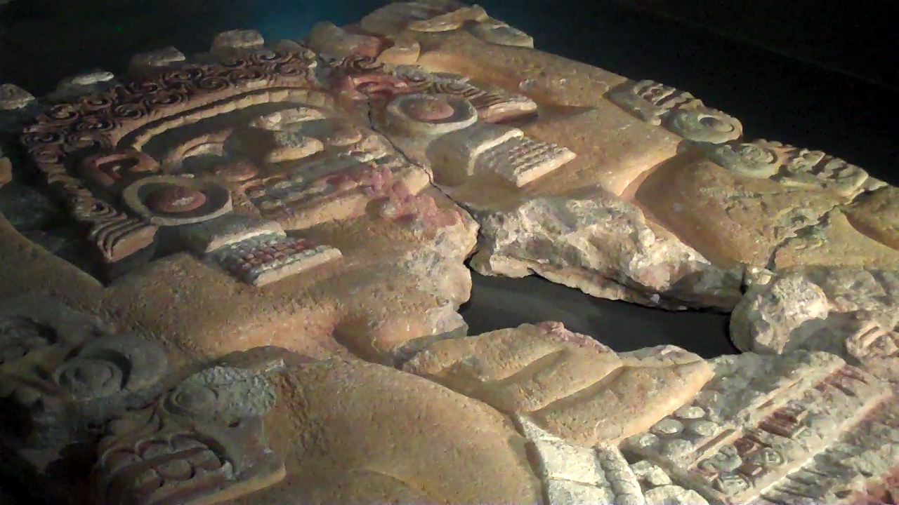 Tlaltecuhtli stone in the Museum of the Templo Mayor, Mexico City.